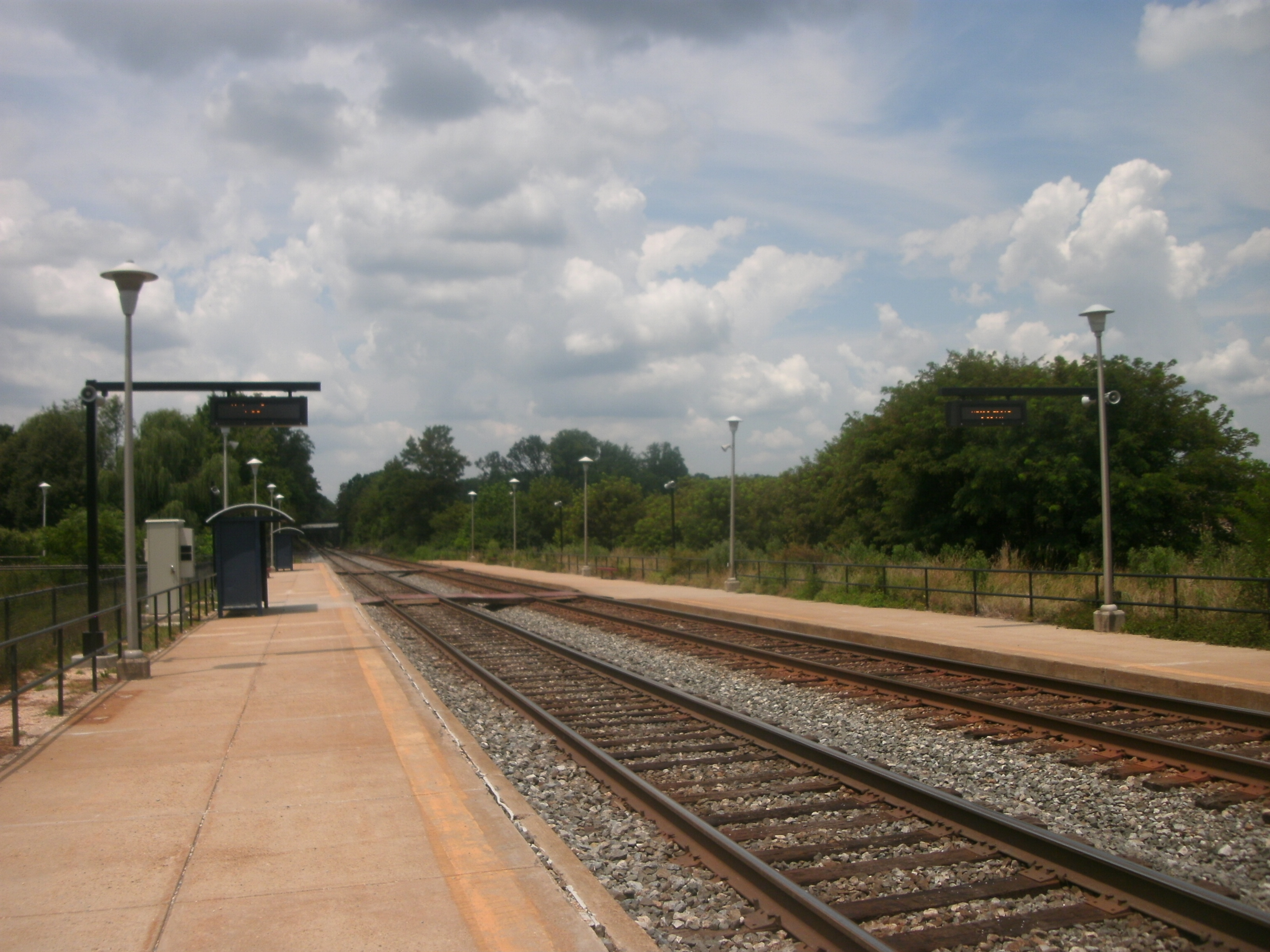 The Metropolitan Grove station facing Martinsburg-bound on the Washington-bound platform.